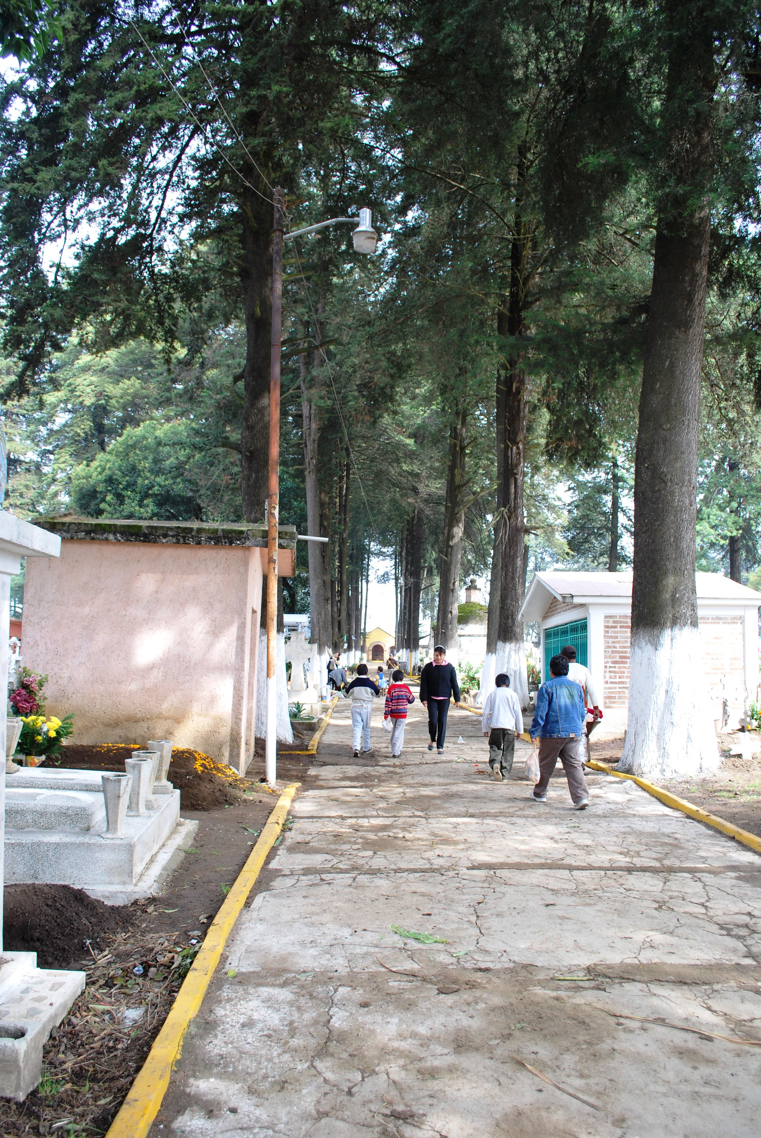 Entrance to the Almoloya del Río municipal cemeter